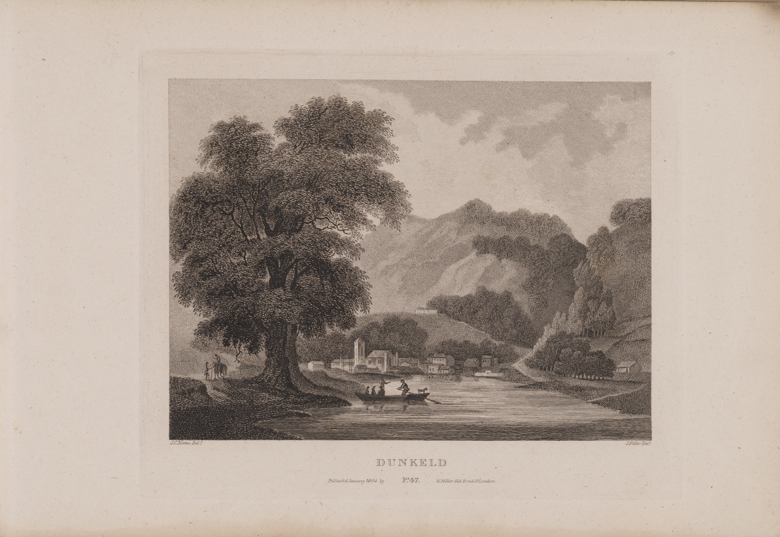 Plate XLVII/b - John Claude Nattes made drawings of suitable scenes on the spot; etchings are by James Fittler.